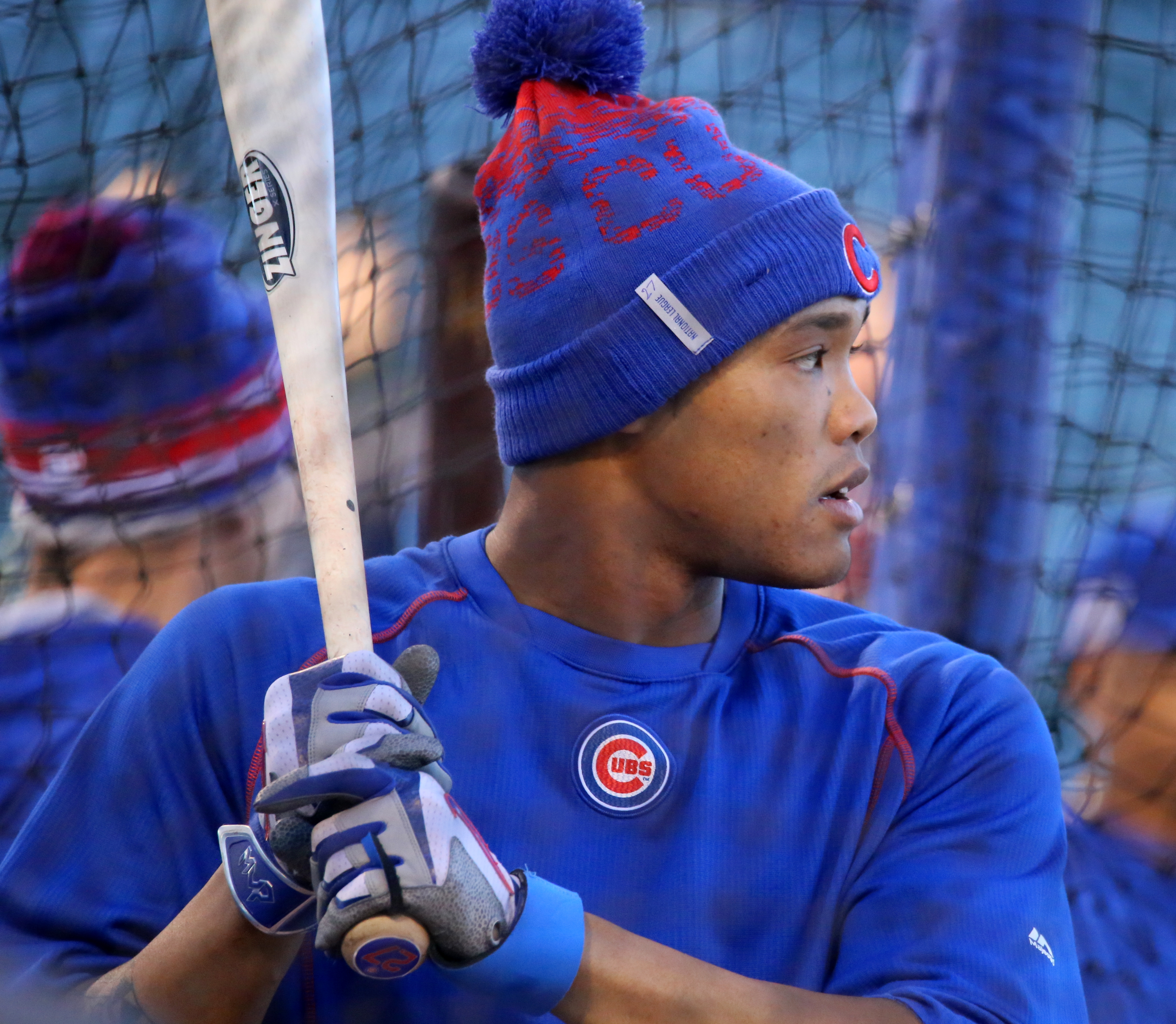 Cubs shortstop Addison Russell takes batting practice before NLCS Game 6.